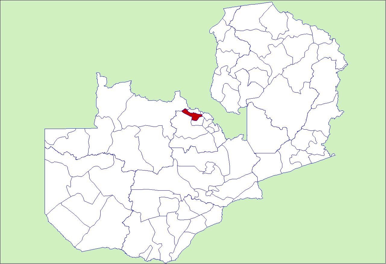 District locator in Zambia